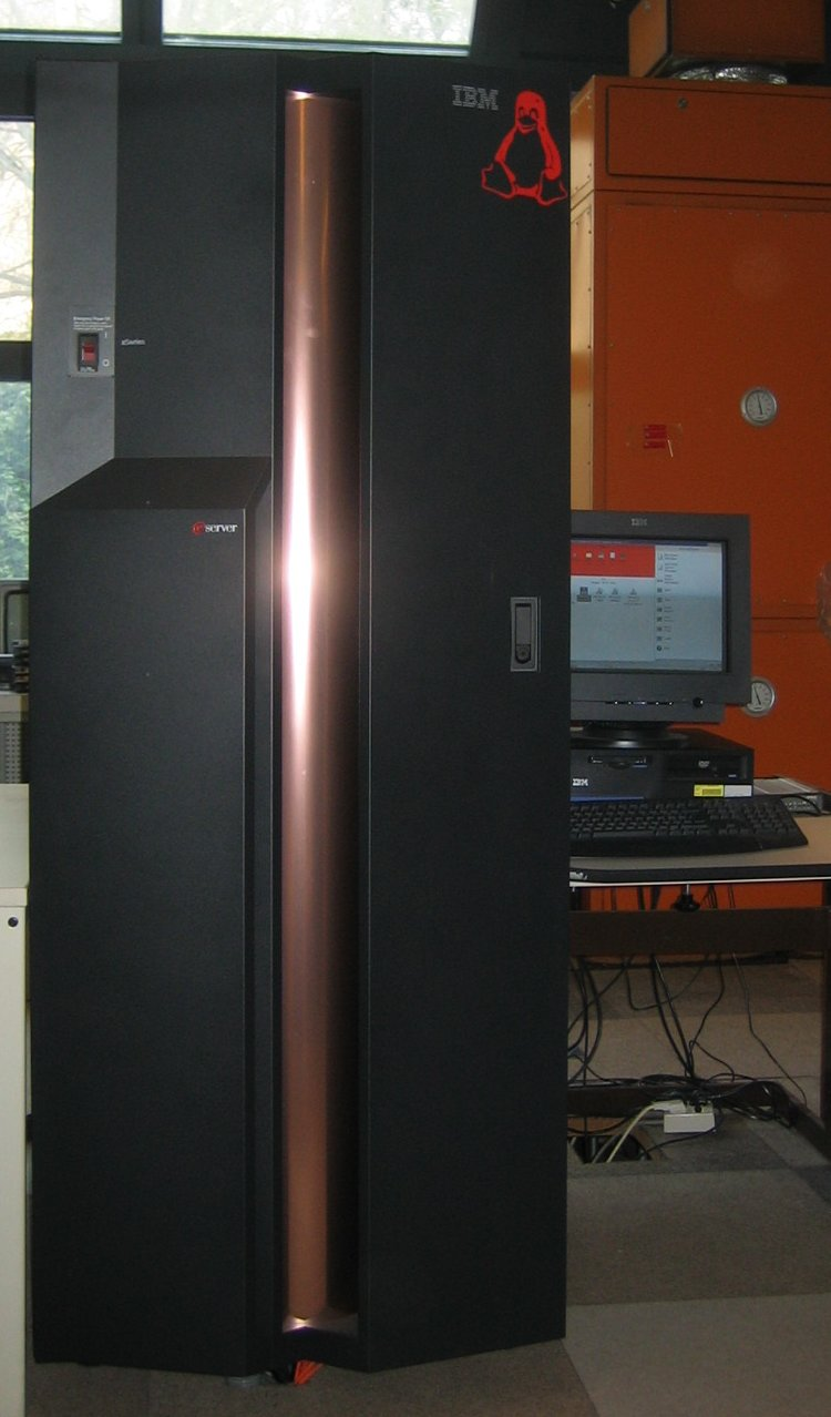 Summary: zSeries z800 Type 2066 Source: photographed by author Author: Maureder, Christian Date: 21. February 2006 Details: System is property of Johannes Kepler Universität Linz.